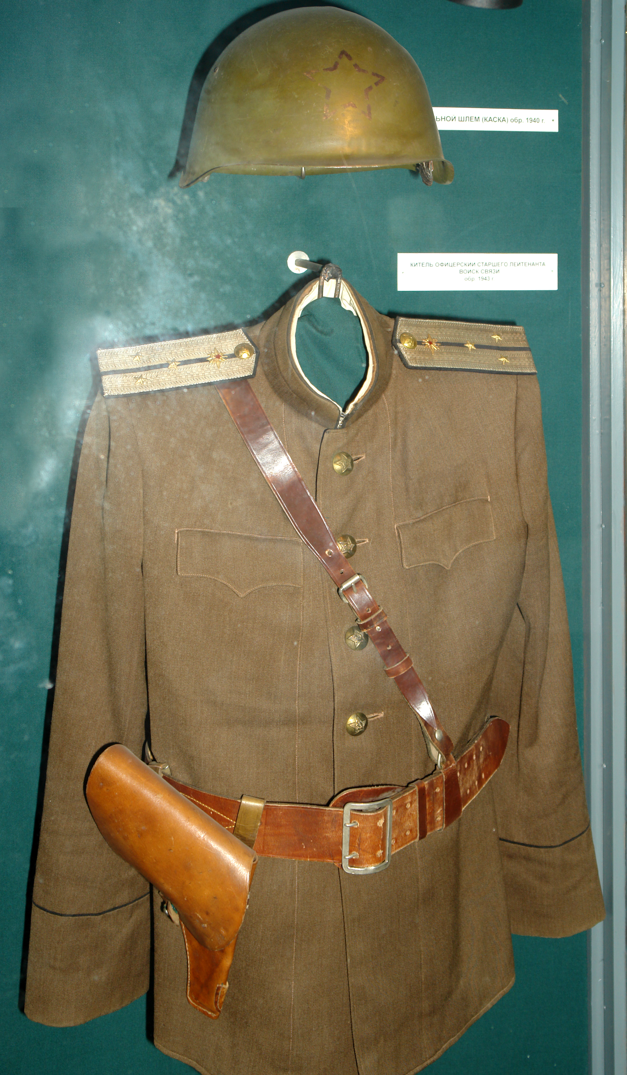 Kitel (tunic) of first lieutenant used in 1943 in the Soviet Signal Corps.